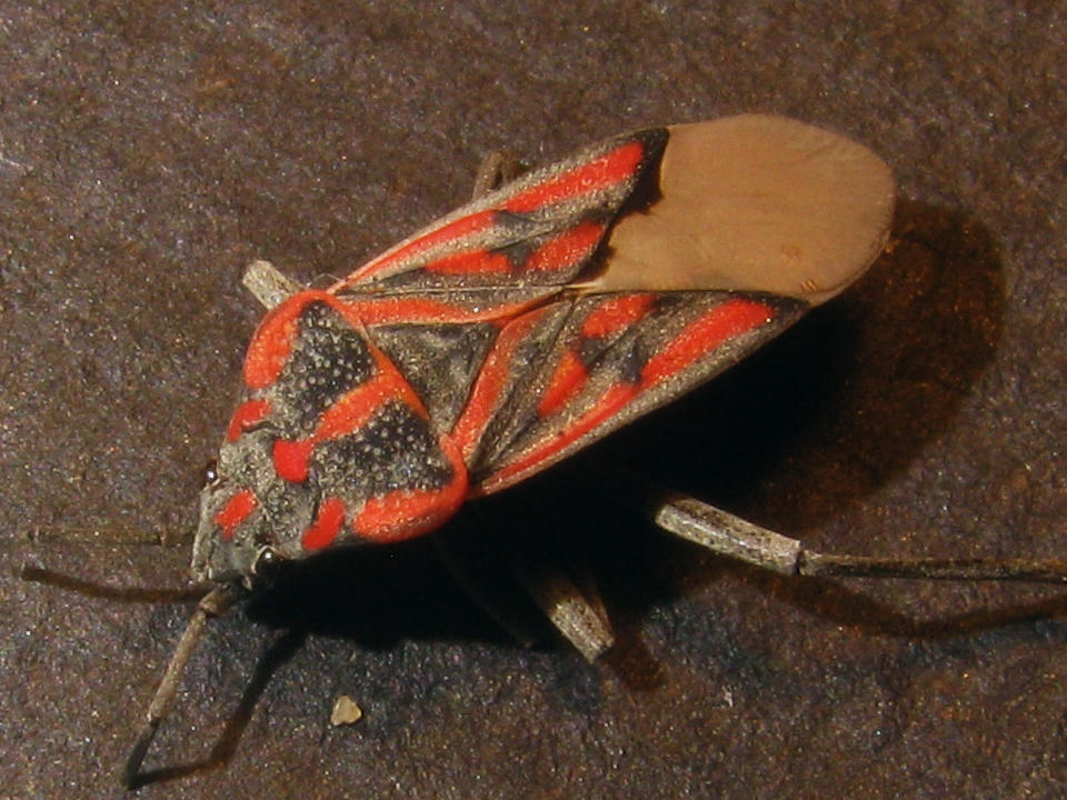 Spilostethus crudelis, South African species found in the Netherlands (Groningen) - incidental import.